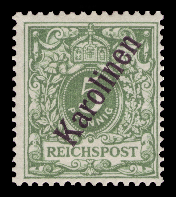 stamp series for German Colonies Ausgabepreis: 5 Pfennig First Day of Issue / Erstausgabetag: Mai 1900 Michel-Katalog-Nr: 2 II (Deutsche Kolonie Karolinen)